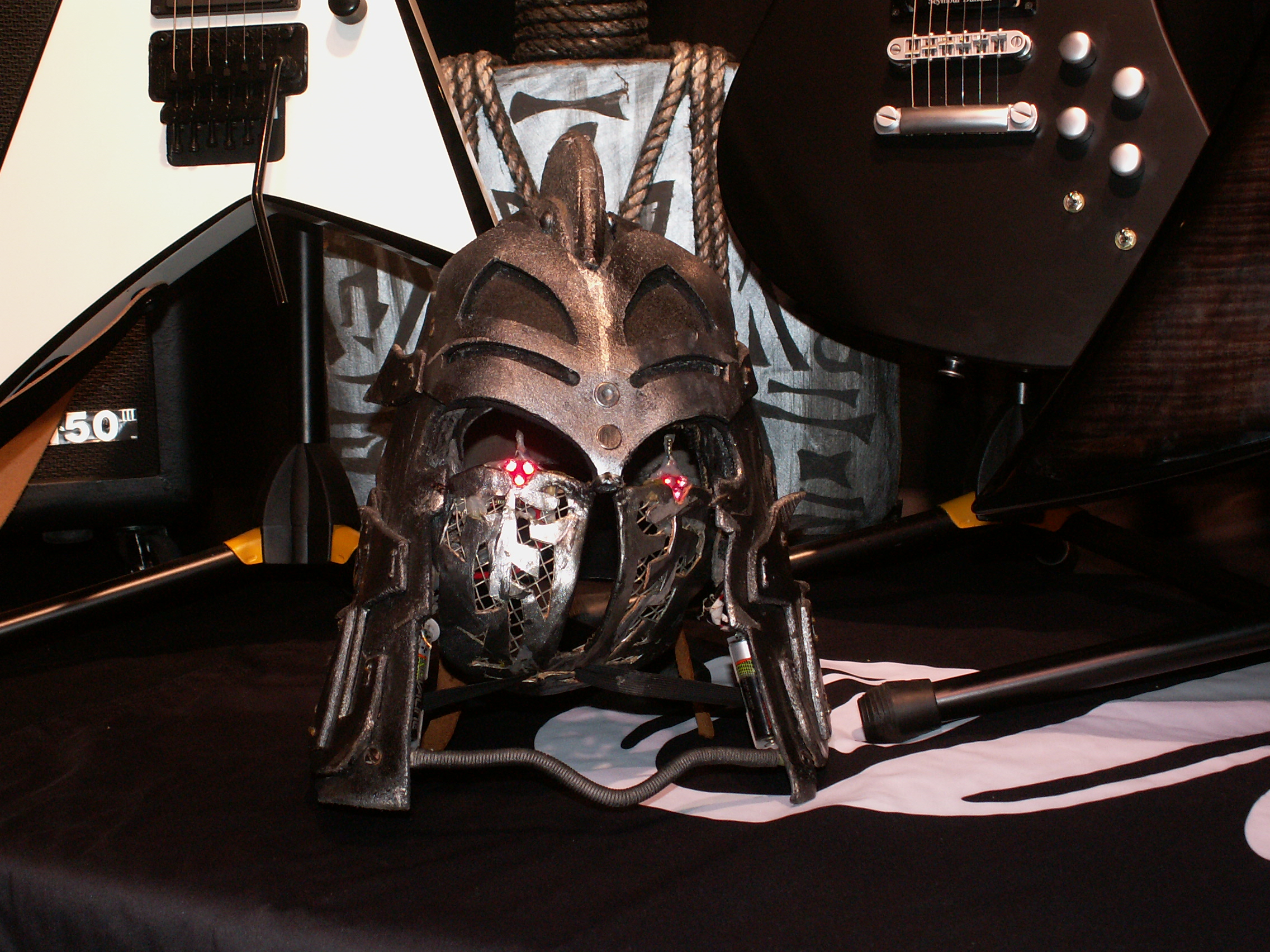 The Helmet